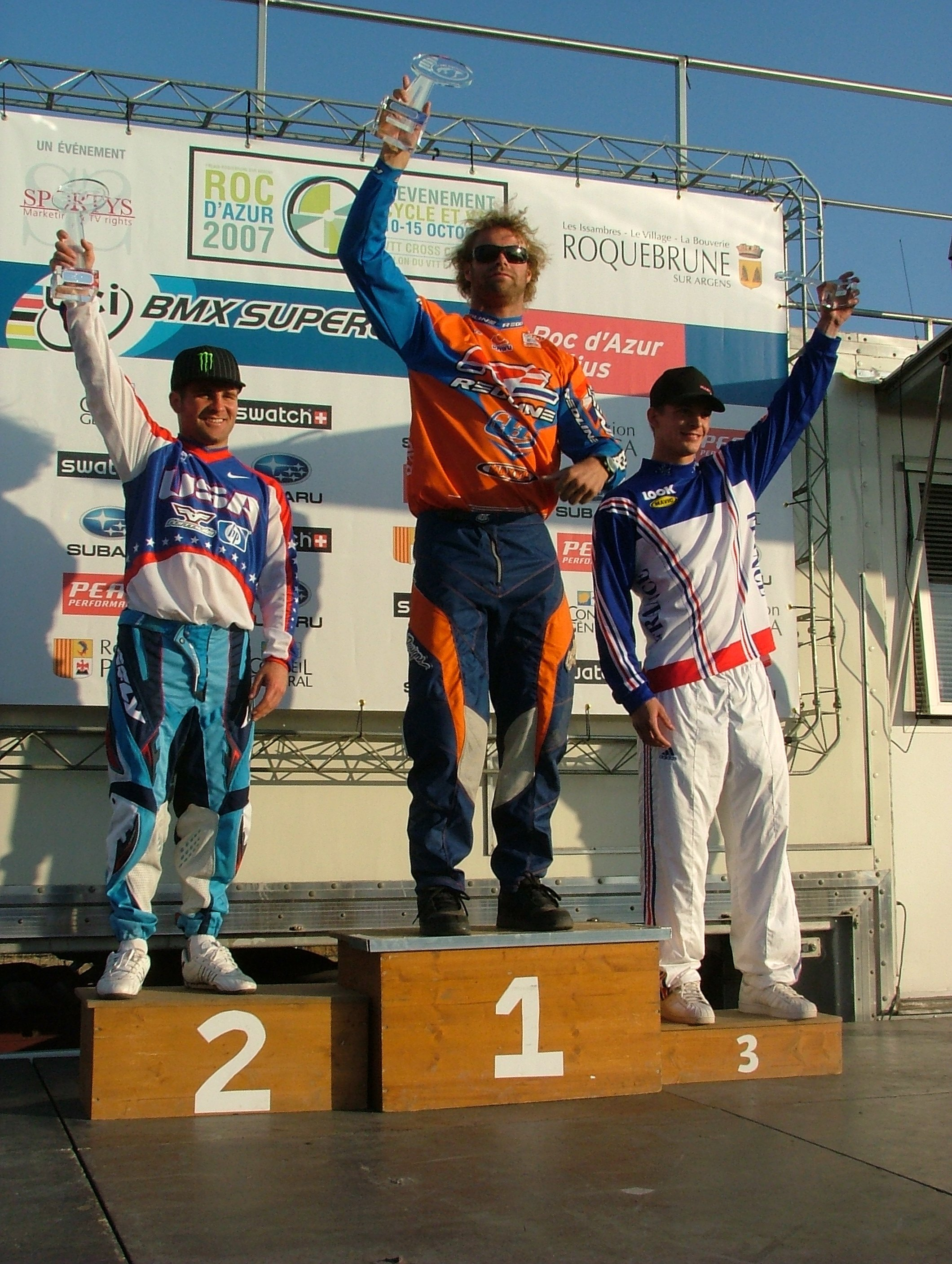 2007 UCI BMX SUpercross World Cup - Award Ceremony